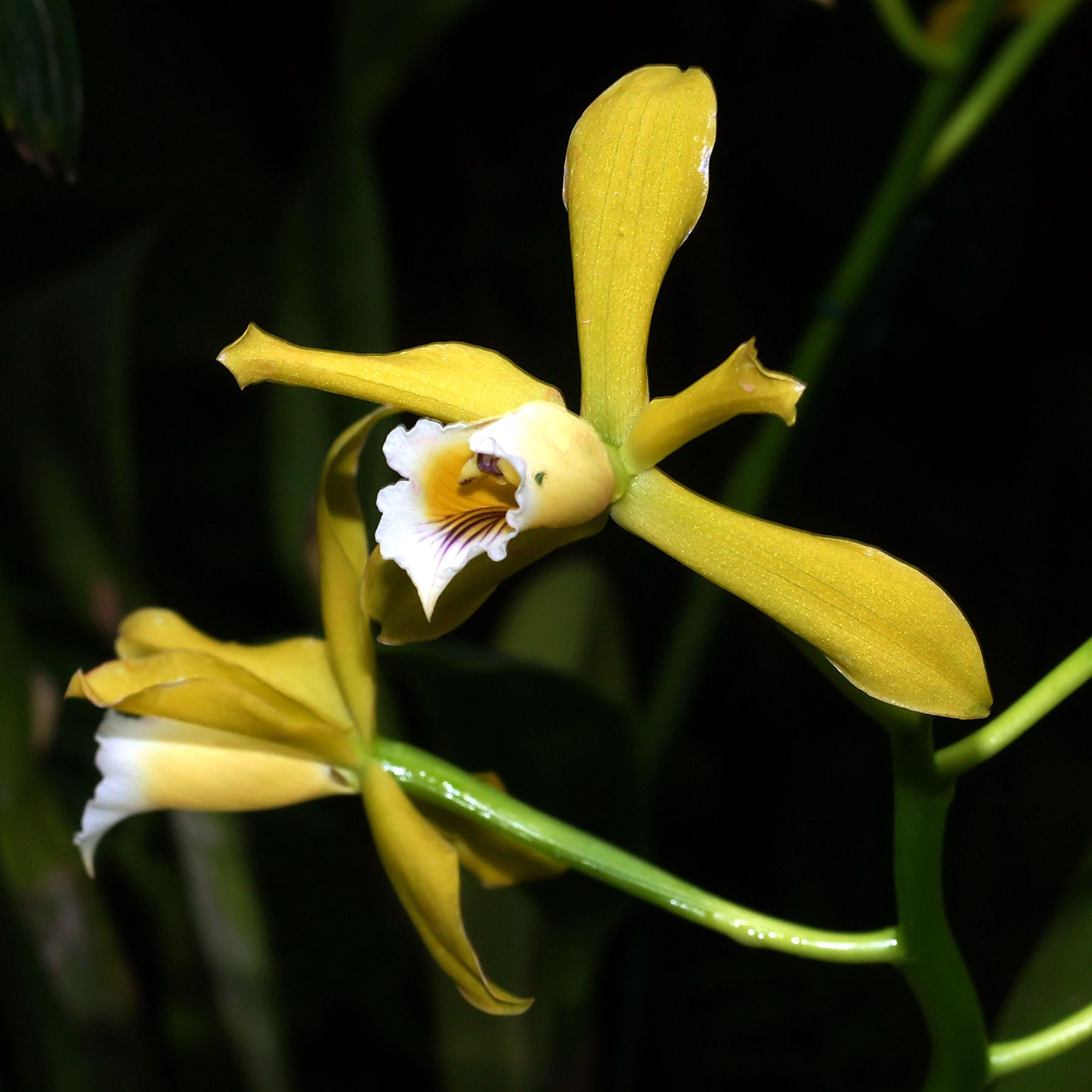 Cattleya xanthina